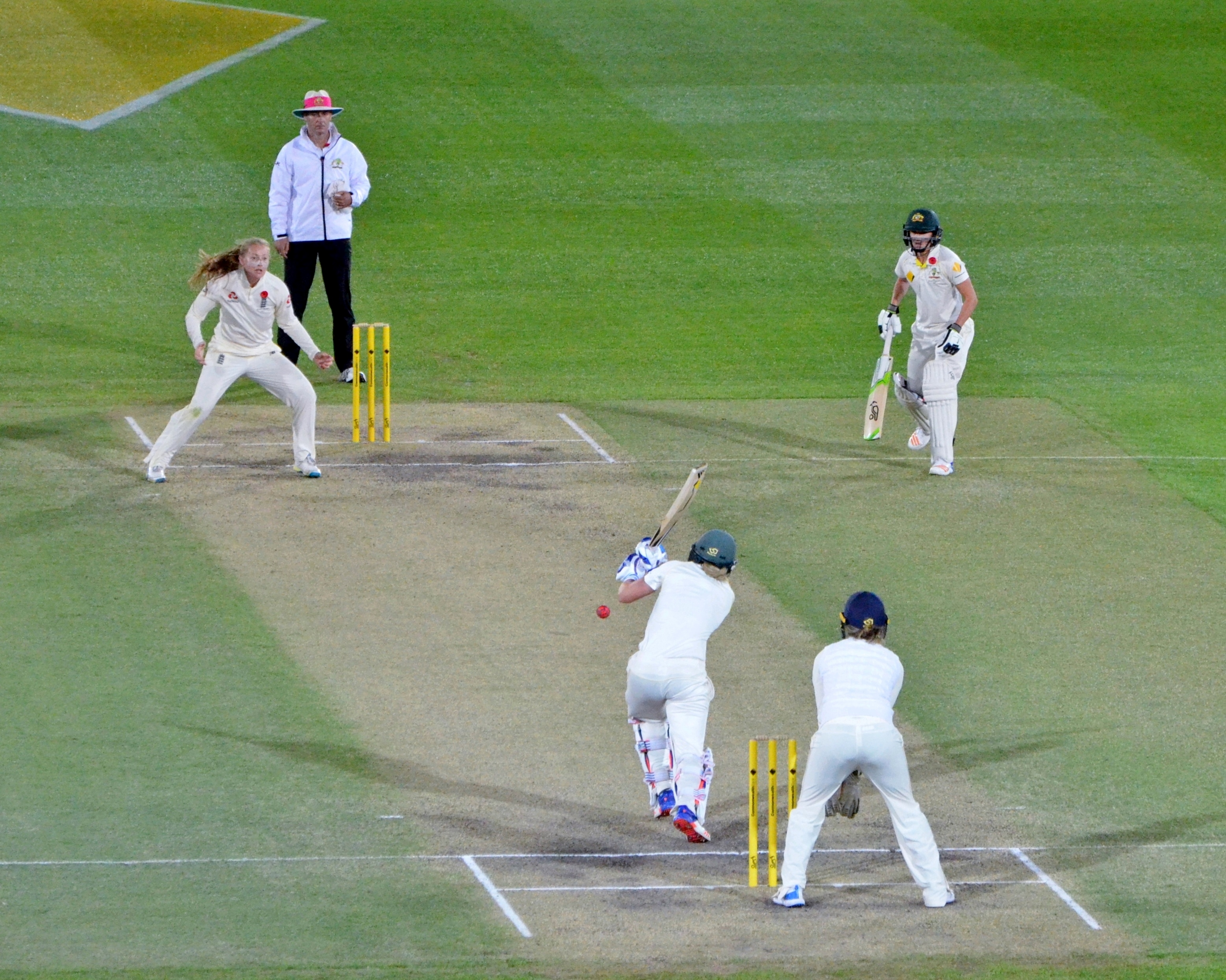 Ellyse Perry straight drives a ball from Sophie Ecclestone to bring up the 200 mark of her marathon 213* during the 2017–18 Women's Ashes Test at North Sydney Oval. The wicket-keeper is Sarah Taylor, and the other batter is Megan Schutt.